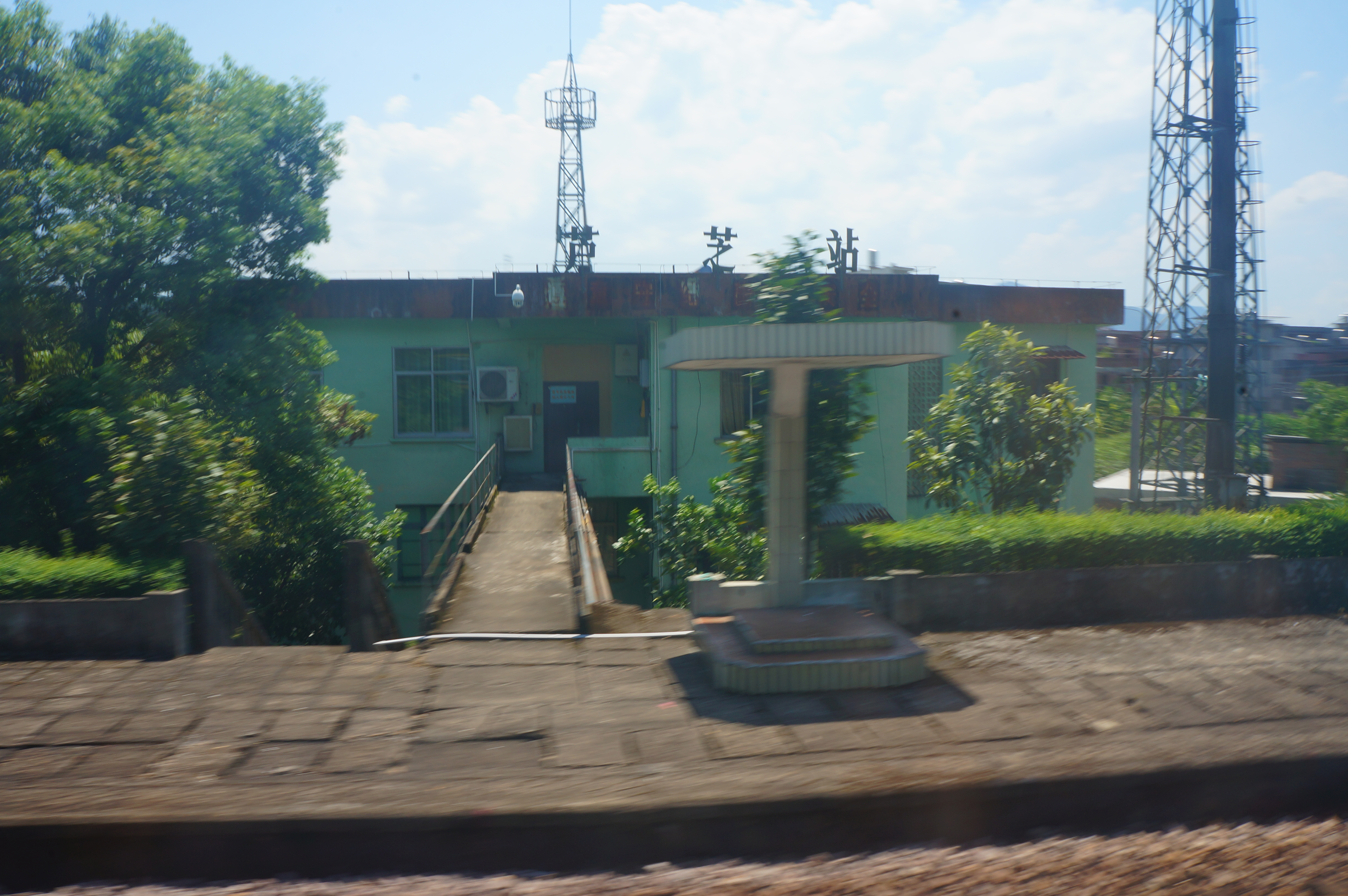 Lou Chi Station. Next Station, Chiang Peng.